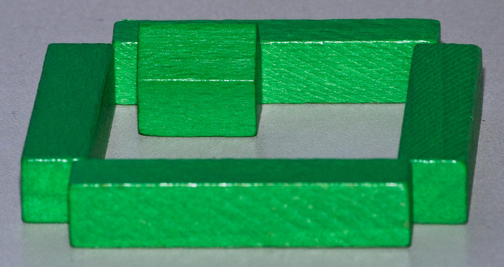 Pieces from the board game Agricola